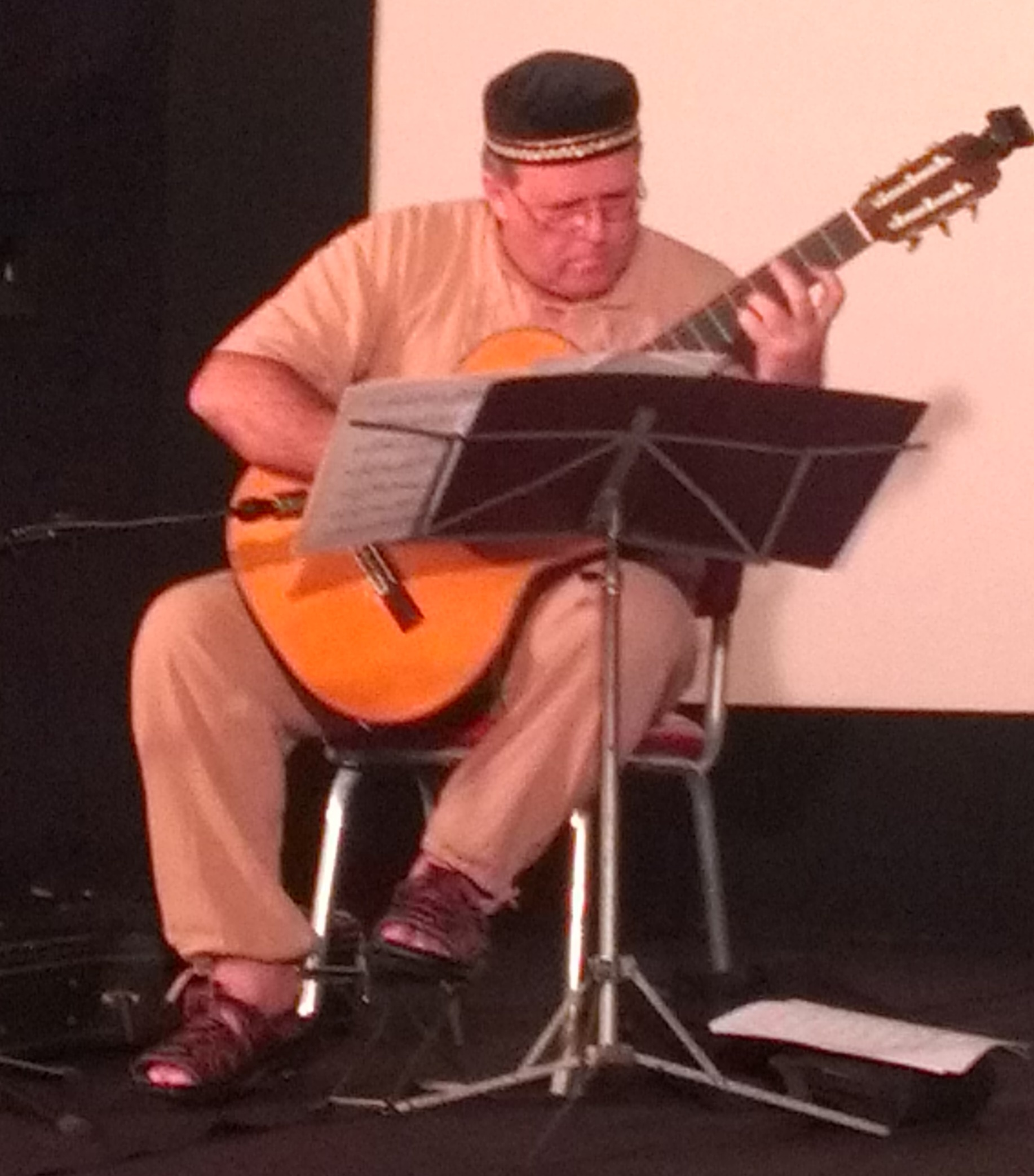 Regalandoles a los estudiantes hermosas melodías